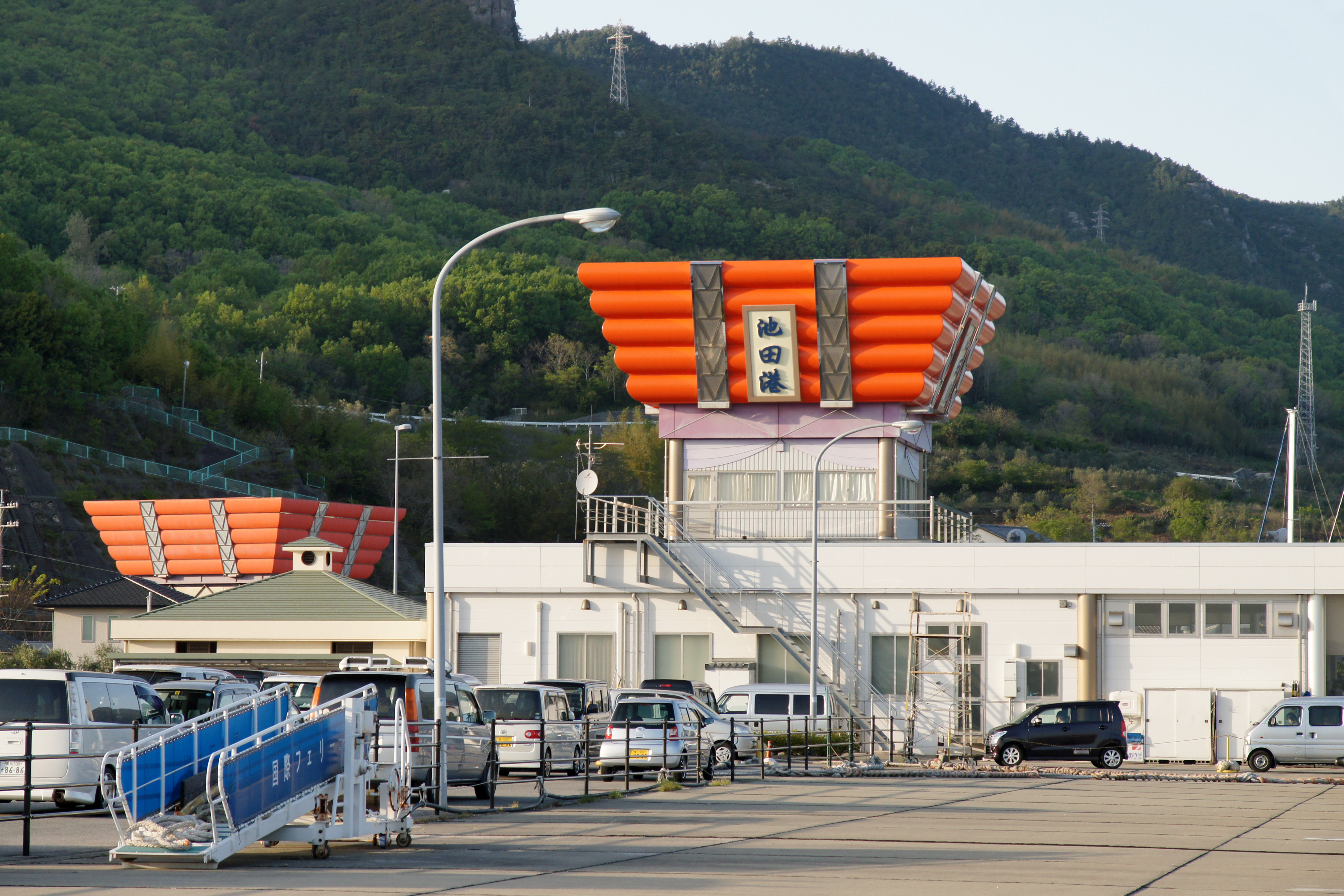 Ikeda Port of Shodo Island in Shodoshima, Kagawa prefecture, Japan